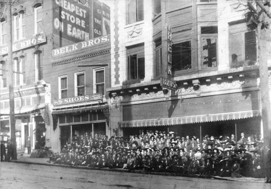 Belk Bros. store in Charlotte around 1910, with a group of people sitting and standing on the sidewalk